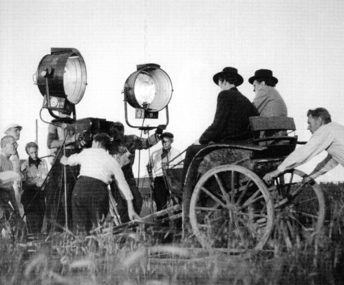 Shootings of Loviisa film in summer 1946. On the caravan Reino Häkälä and Tauno Palo. In the middle Matti Kassila and with a white cap director Valentin Vaala.